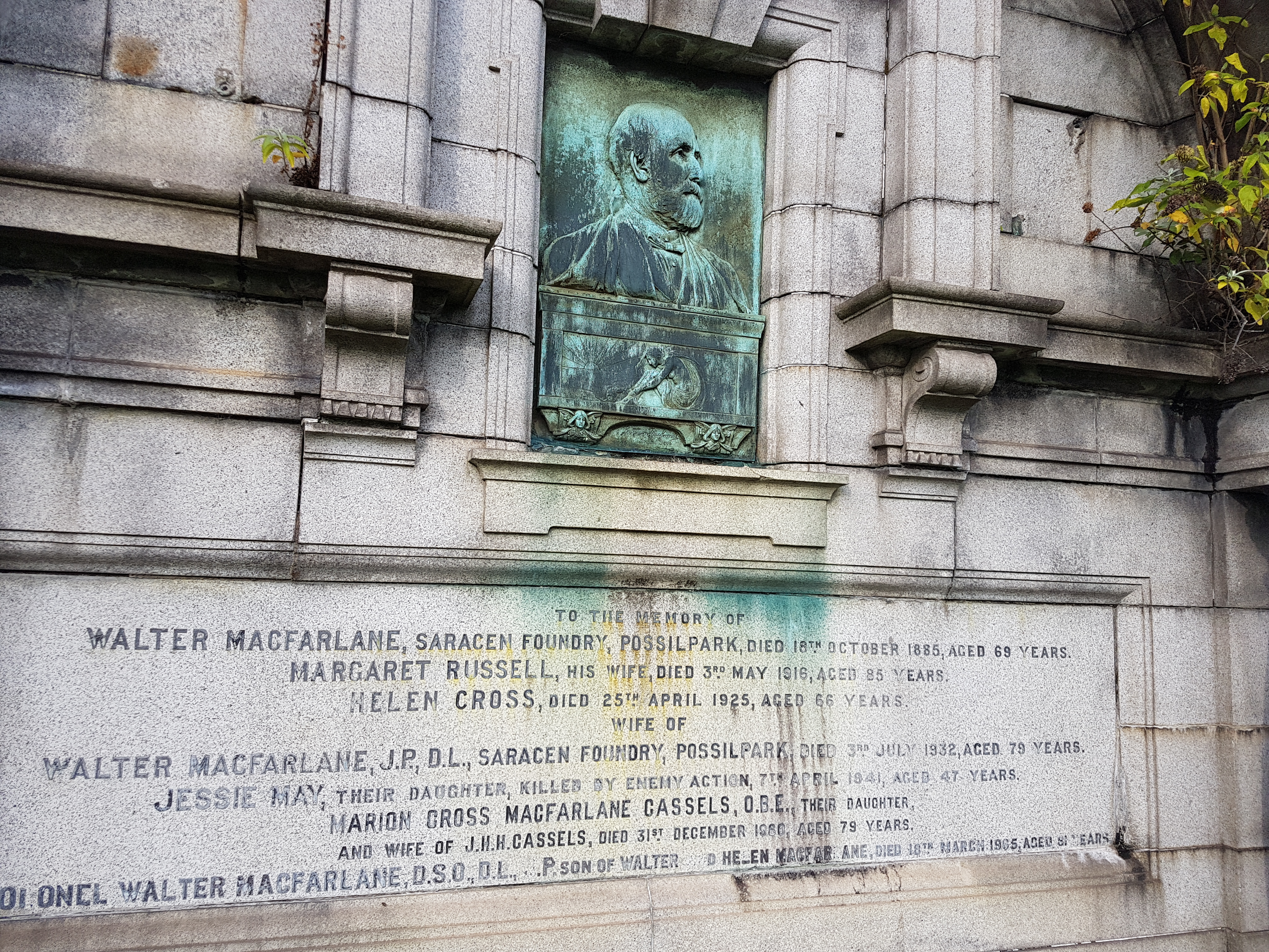 Glasgow Necropolis Wikidata has entry Q1529512 with data related to this item.